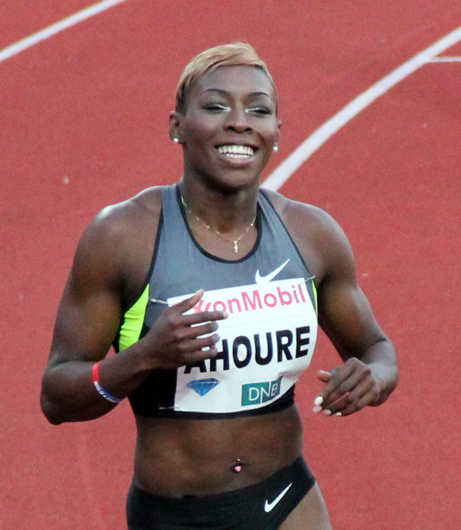 Murielle Ahouré at the 2012 Bislett Games